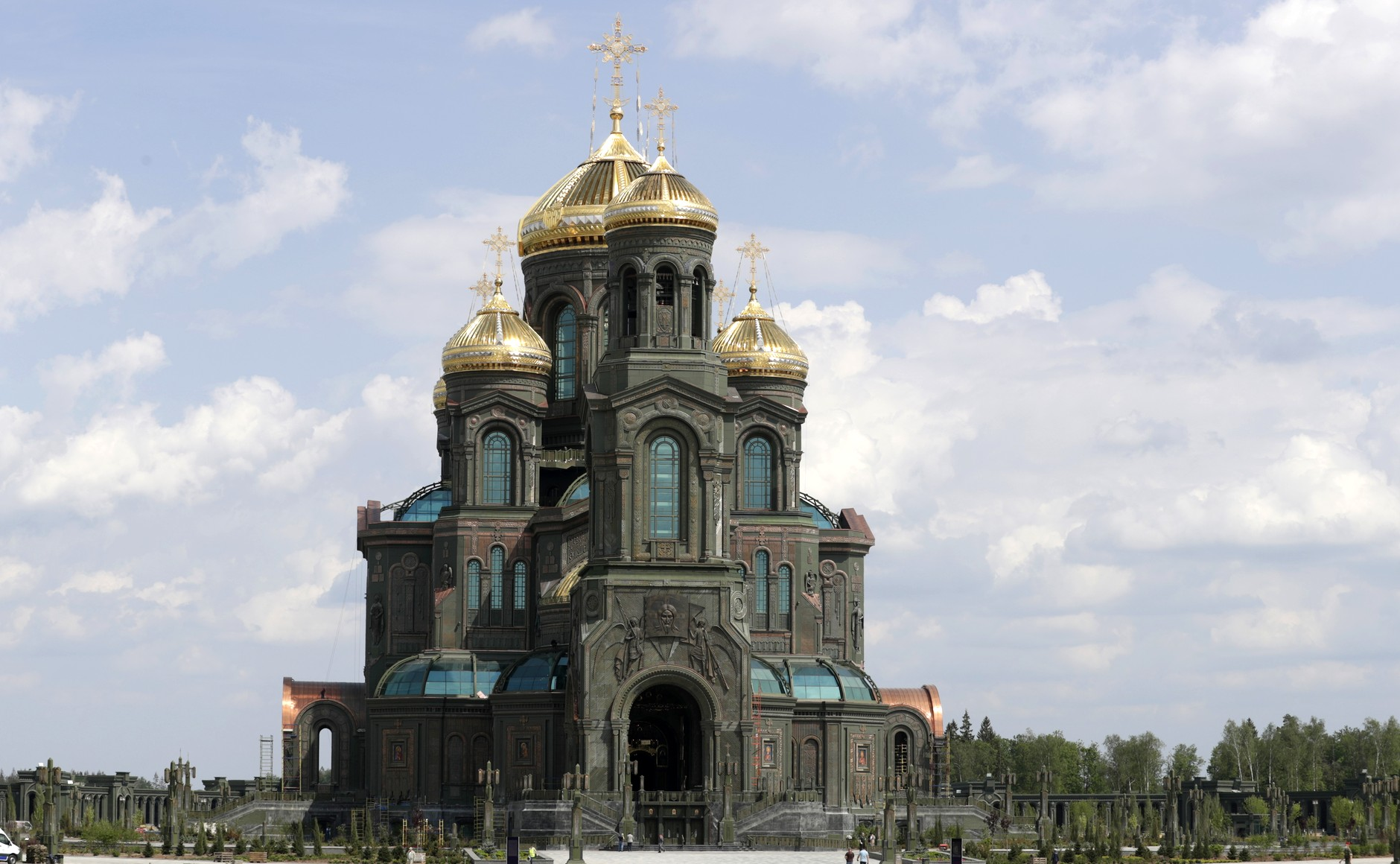 Main temple of the Russian Armed Forces